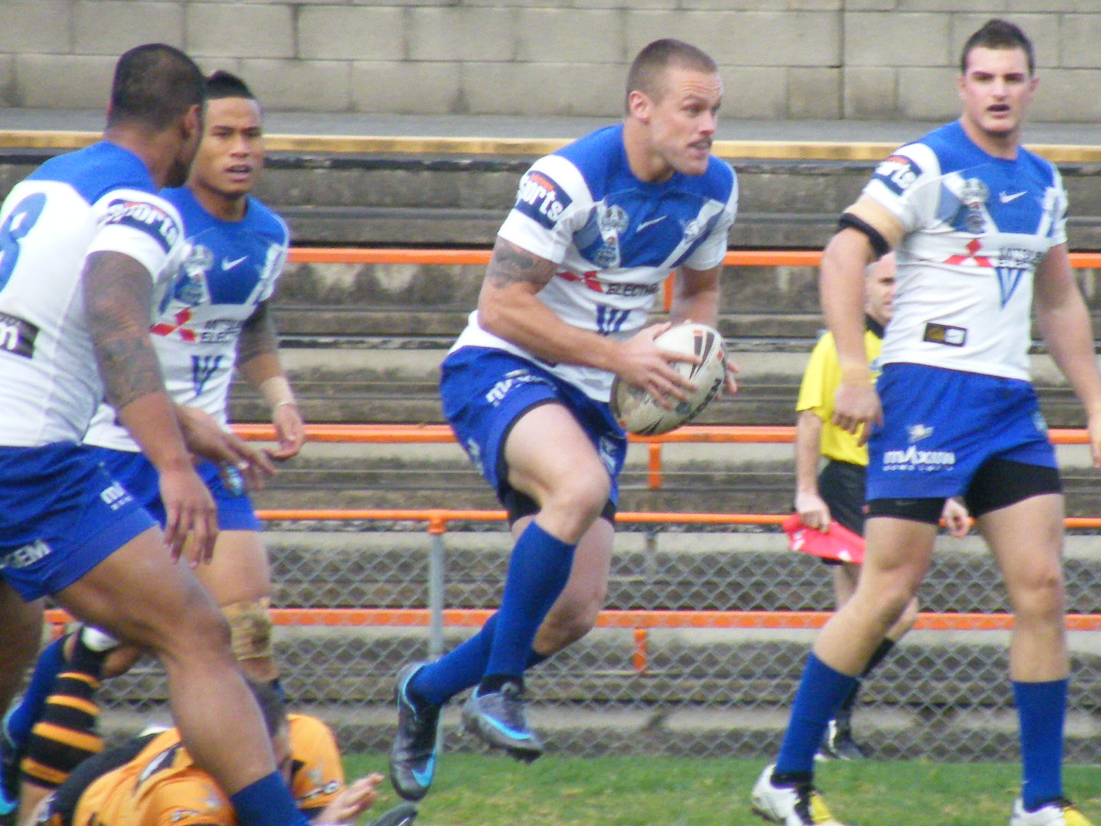 Canterbury Bankstown VB Cup winger Nick Youngquest dispalys some dazzling footwork against Balmain - Leicchardt Oval 26 July 2008.